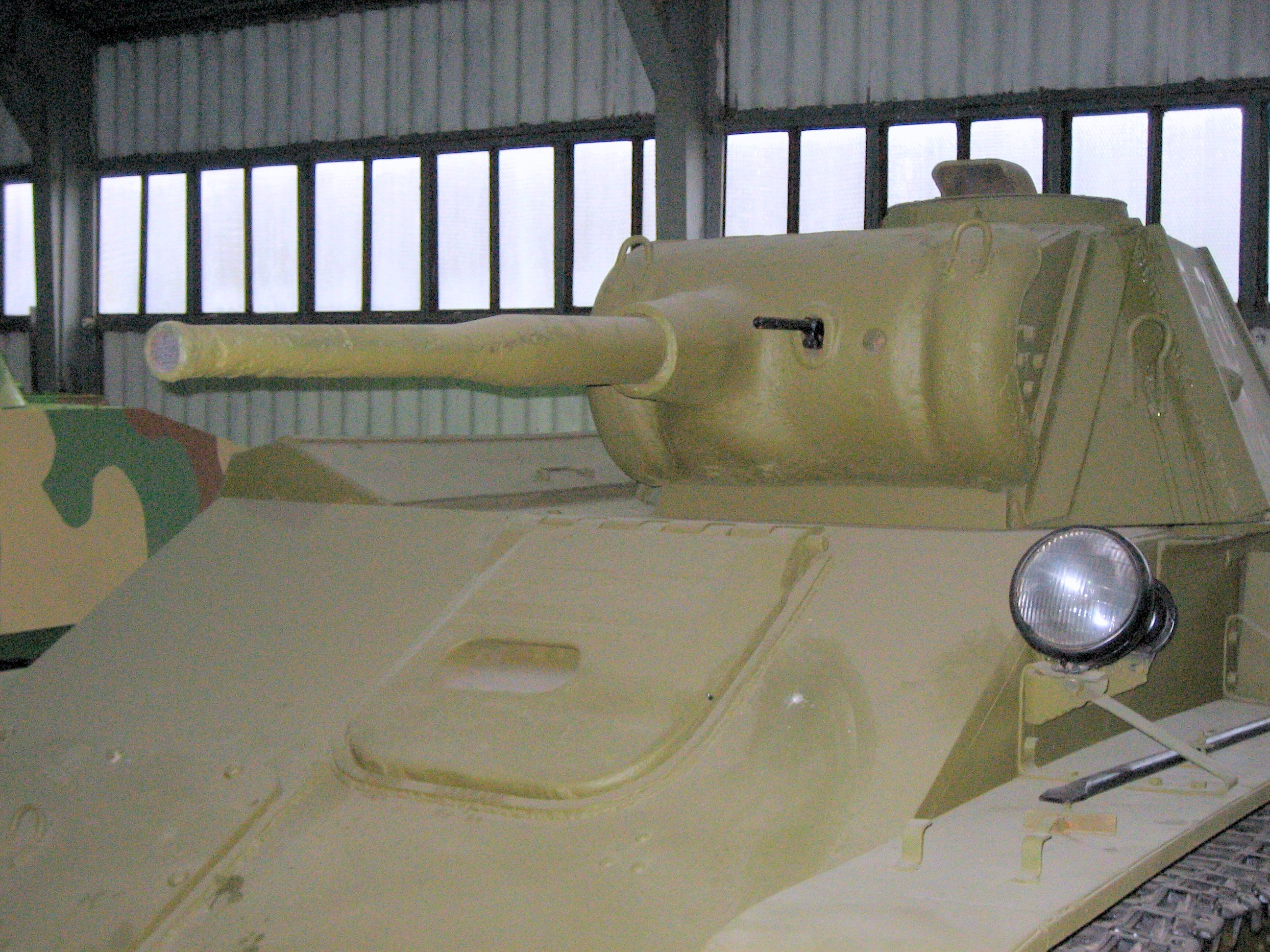 Soviet light infantry tank T-70, displayed in Kubinka Tank Museum. Photo taken on September 9, 2007. Source: Photo by me, User:Saiga20K.